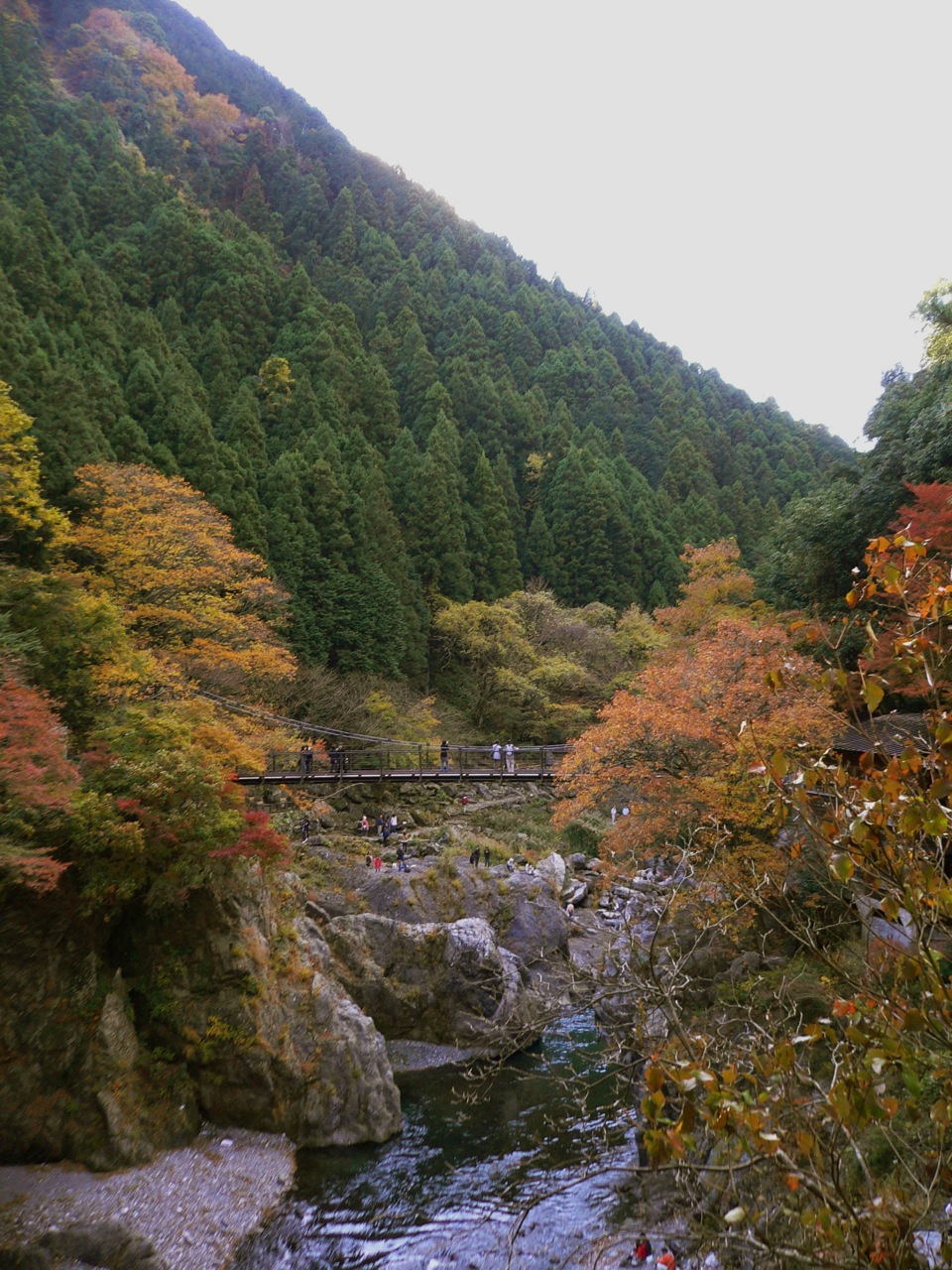 Autumn leaves at Hatonosu Kobashi, Hatonosu Ravine, Okutama, Nishitama, Tokyo, Japan.